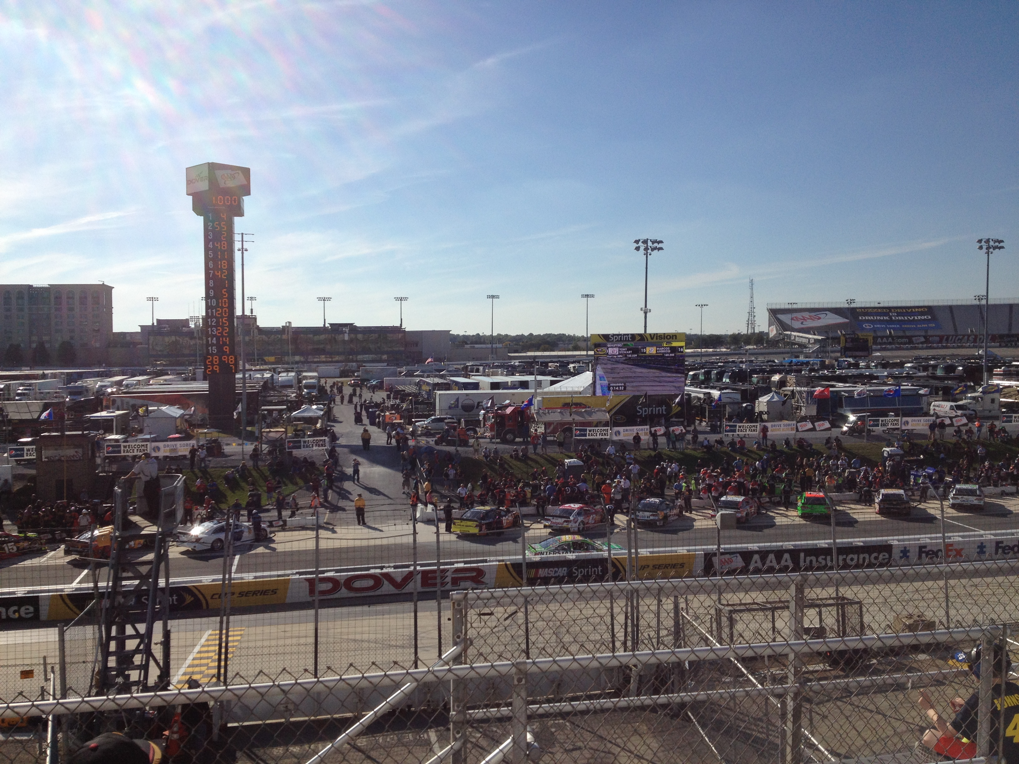 Qualifying for the 2014 AAA 400 at Dover International Speedway viewed from the frontstretch